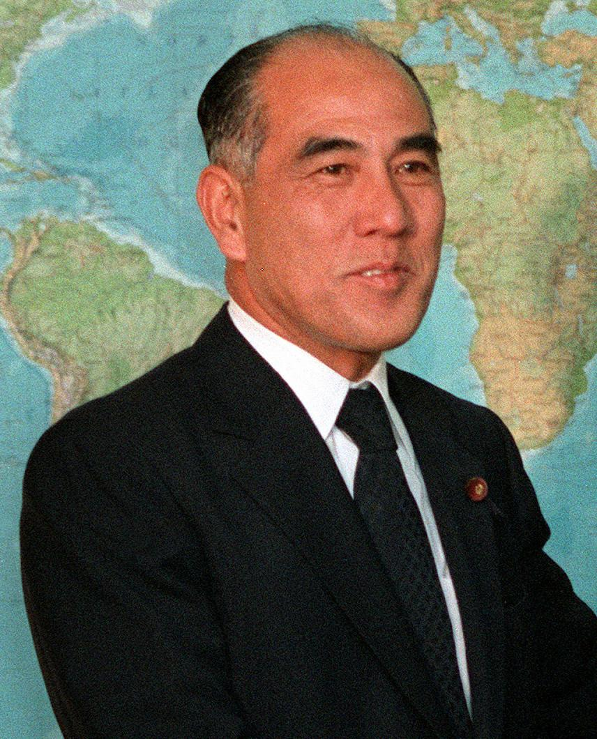 Soichiro Ito